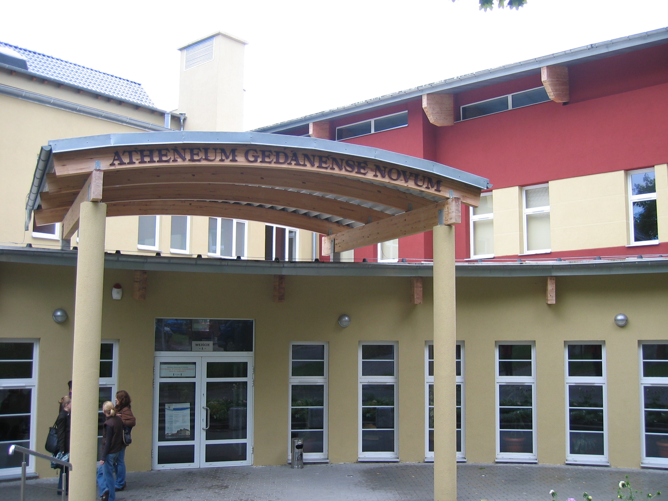 The Atheneum Gendanense Novum building houses auditoriums, lecture rooms, Deans' Office, the Recruiting and Admissions Office and the MUG Museum.